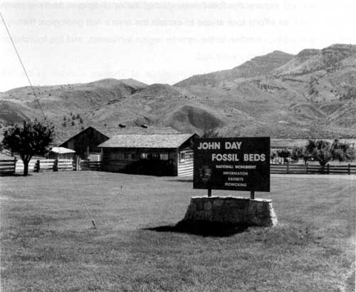 National Park Service Headquarters for the John Day Fossil Beds National Monument located at the historic James Cant Ranch near Dayville, Oregon